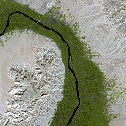 The Nile at Dendera — in Upper Egypt. Photo by SPOT Satellite.